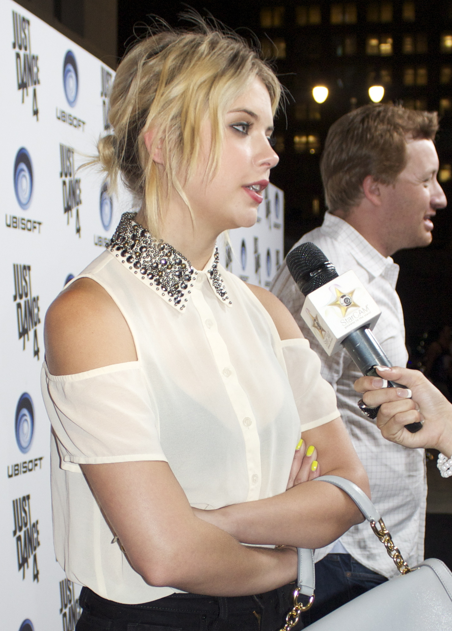 Ashley Benson at the "Just Dance 4", Launch Party in October 2012.